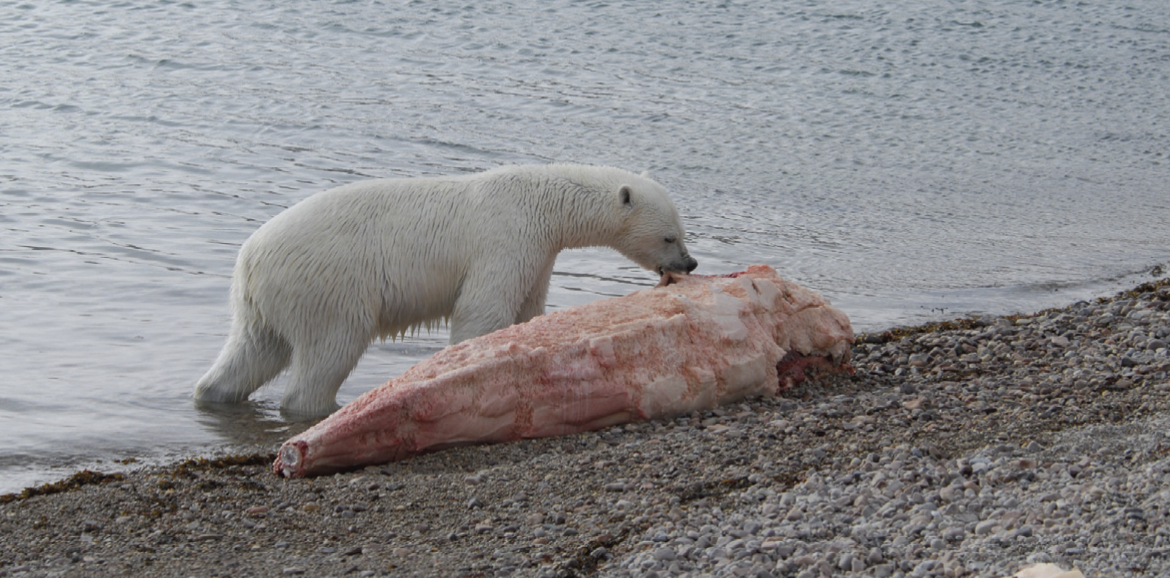 Scavenging: a polar bear (Ursus maritimus) eating flesh from a narwhal whale carcass (Monodon monoceros) (Photo: Jeff W. Higdon/DFO).